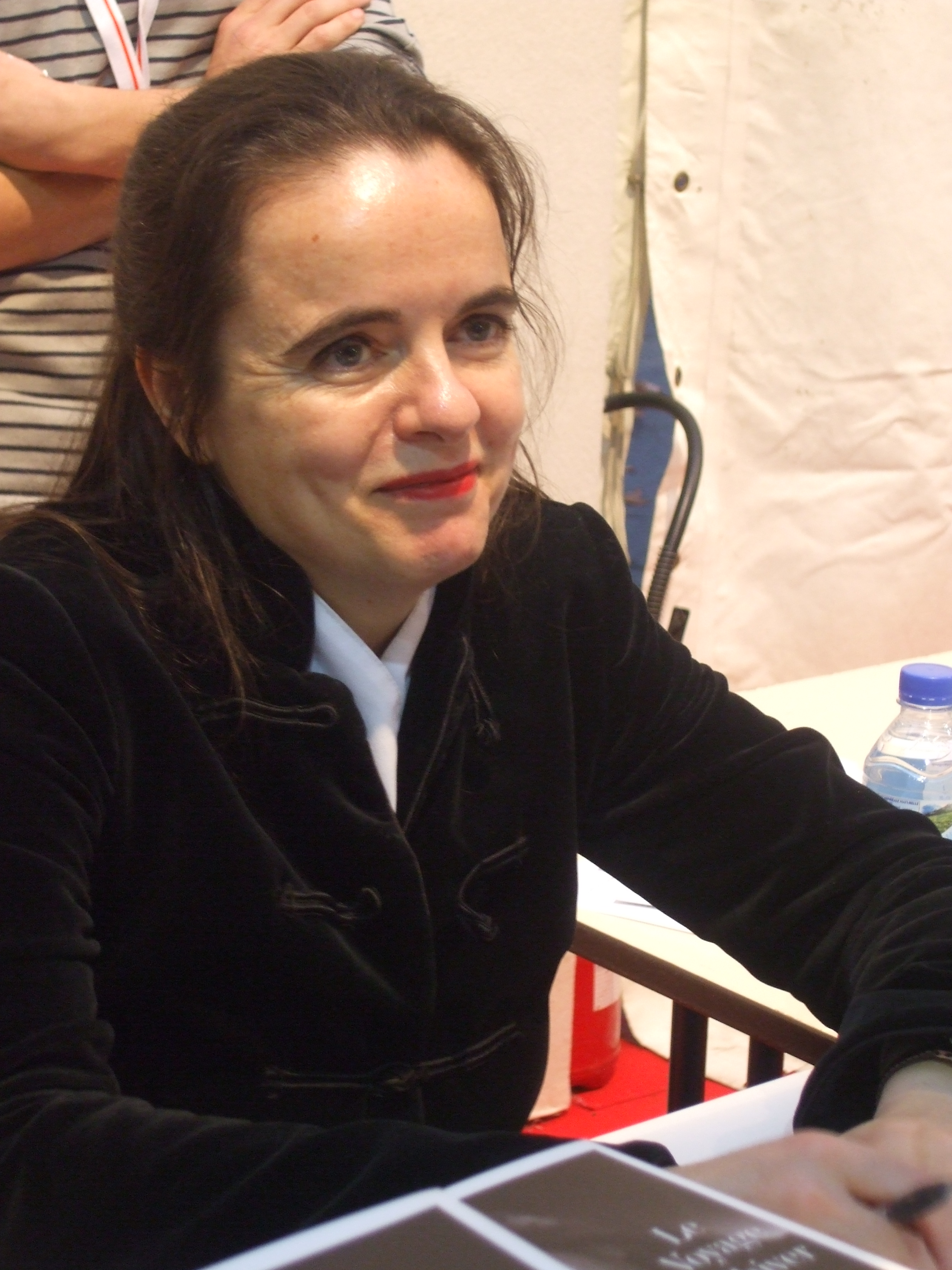 Amélie Nothomb, belgian writer, Brive la Gaillarde book fair, France, 2010 11 05